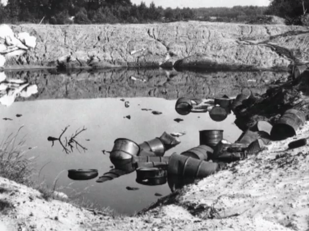 Je ziet hier de 50-tal vaten.